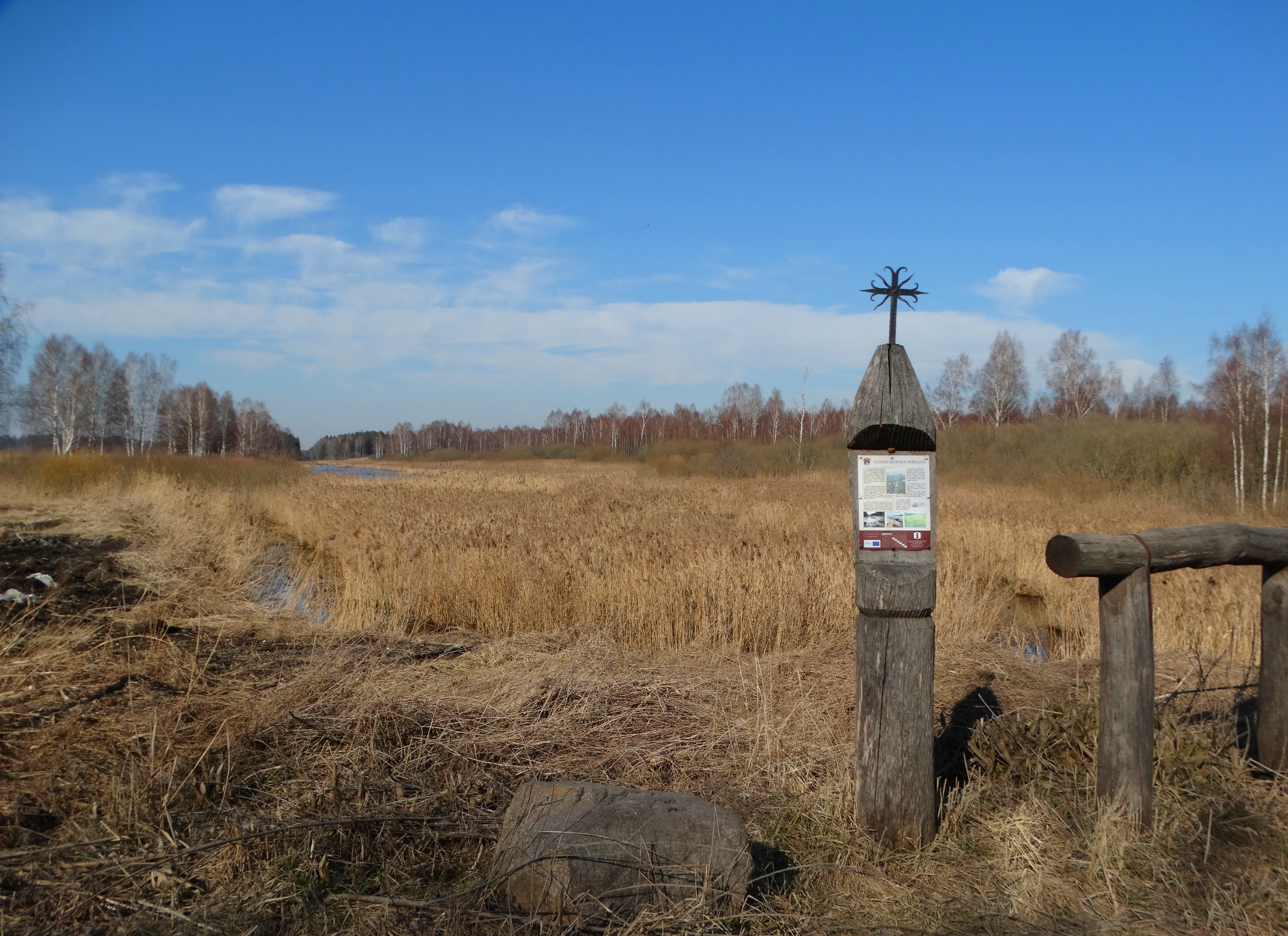 Windawski Canal, Šiauliai district, Lithuania